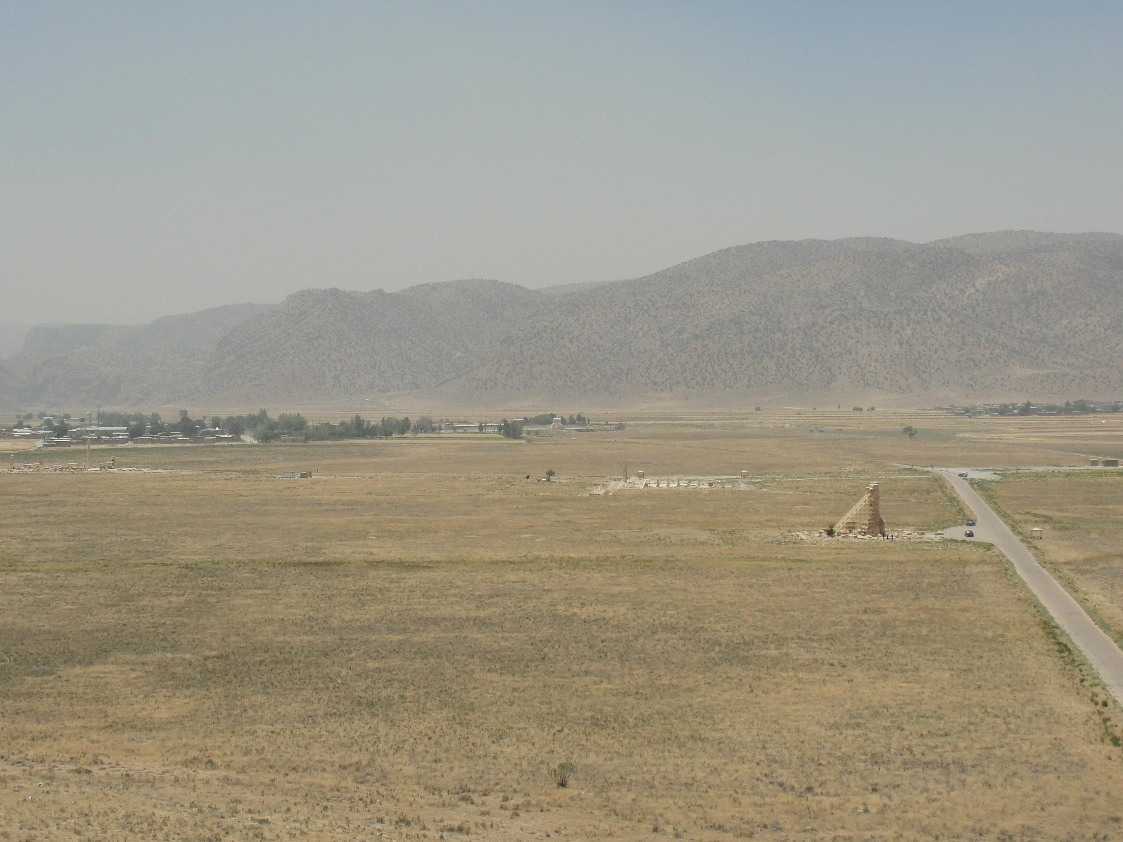 overall view of Pasargadae from the Tal Takht hill. The tomb of Cyrus the great is the most distant building located in the upper center of the image